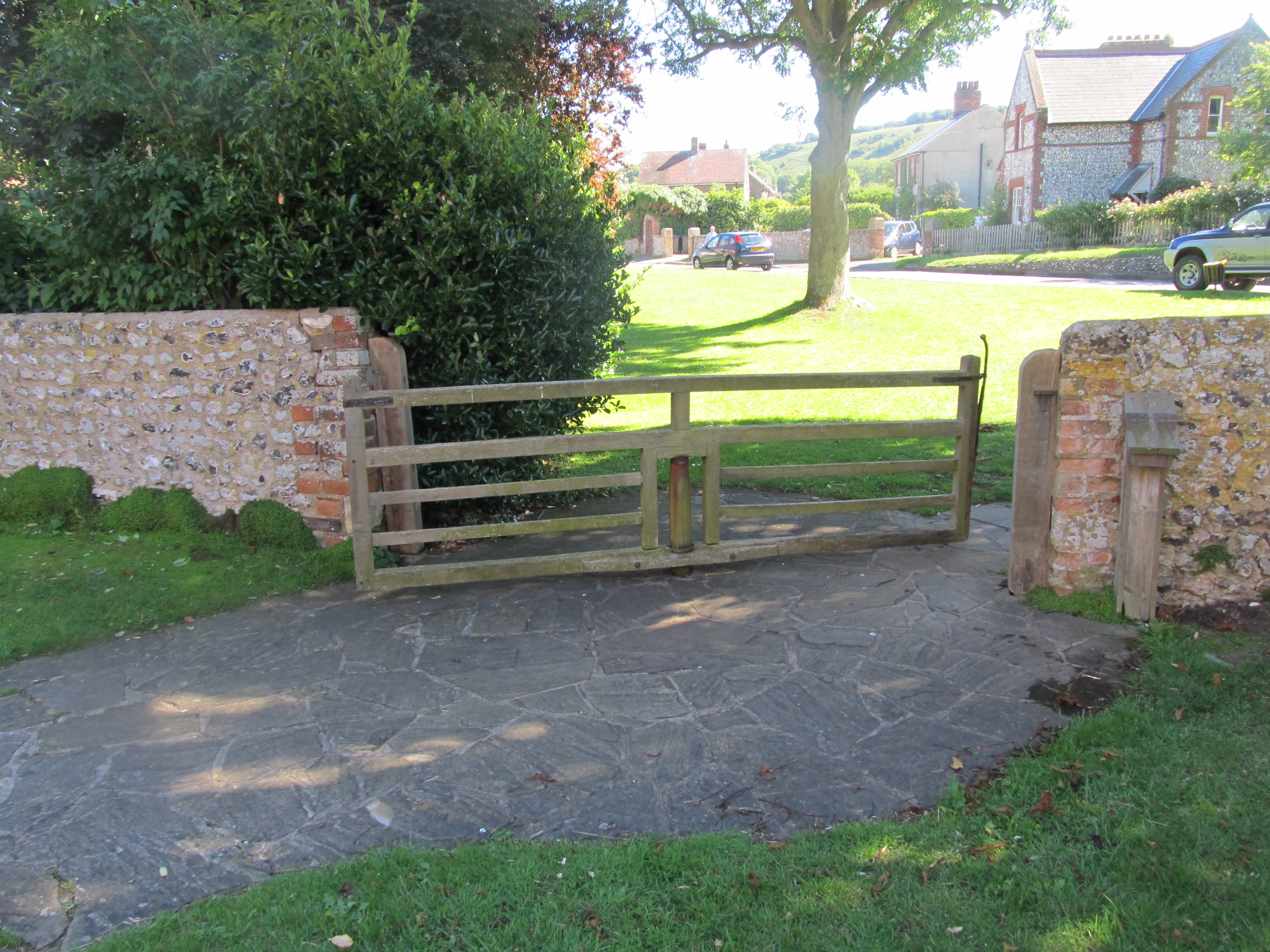 Tapsel gate at St Simon and St Jude church, East Dean, East Sussex, England